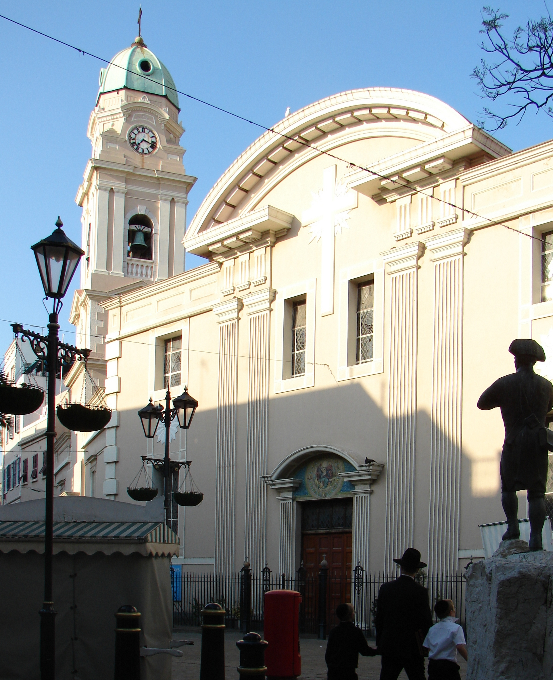 A photograph of the Cathedral of St. Mary the Crowned taken by myself on the 28th April 2007 in Gibraltar